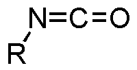 General structure of isocyanates